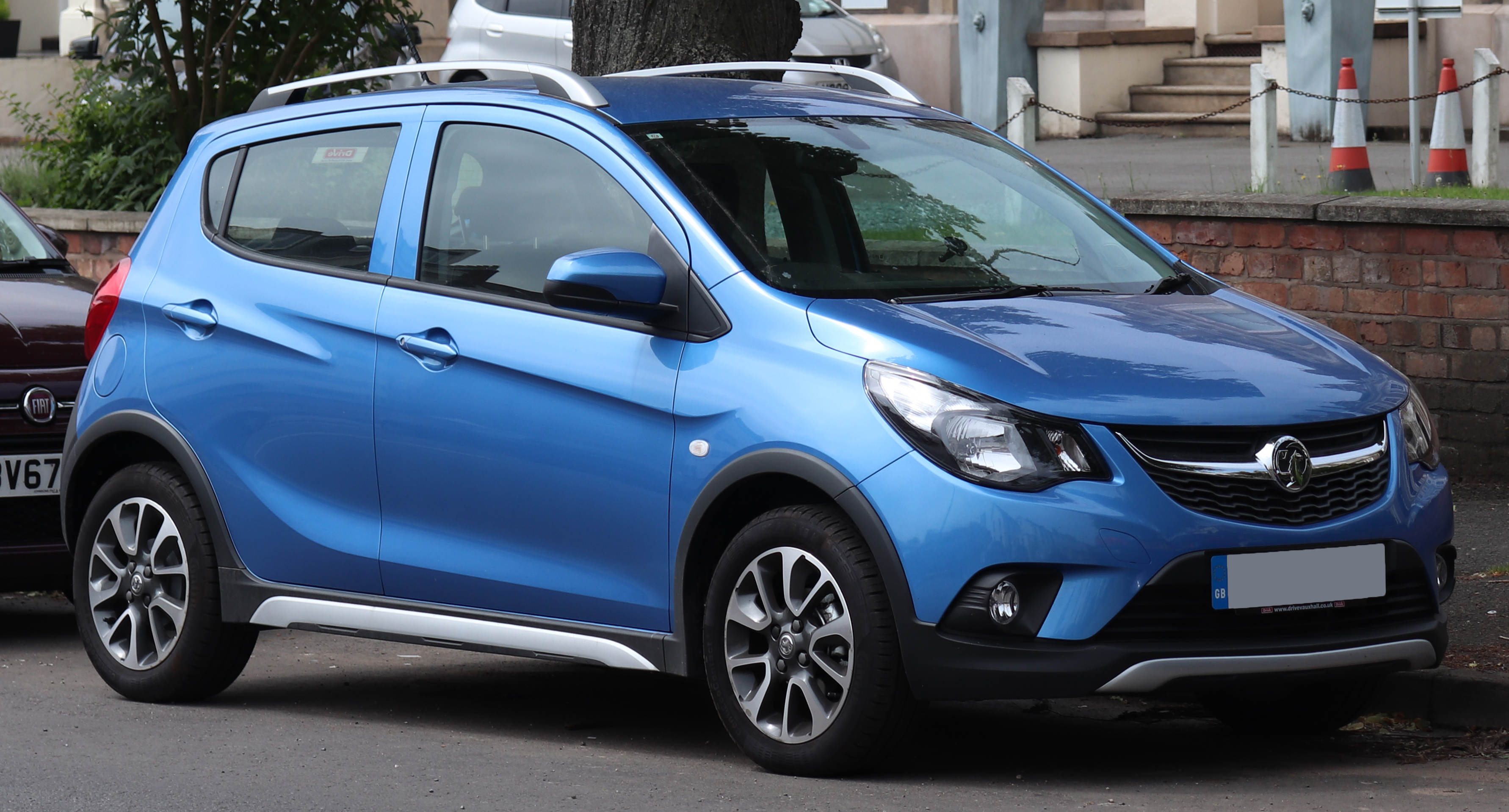 2018 Vauxhall Viva Rocks 1.0 Front Taken in Leamington Spa